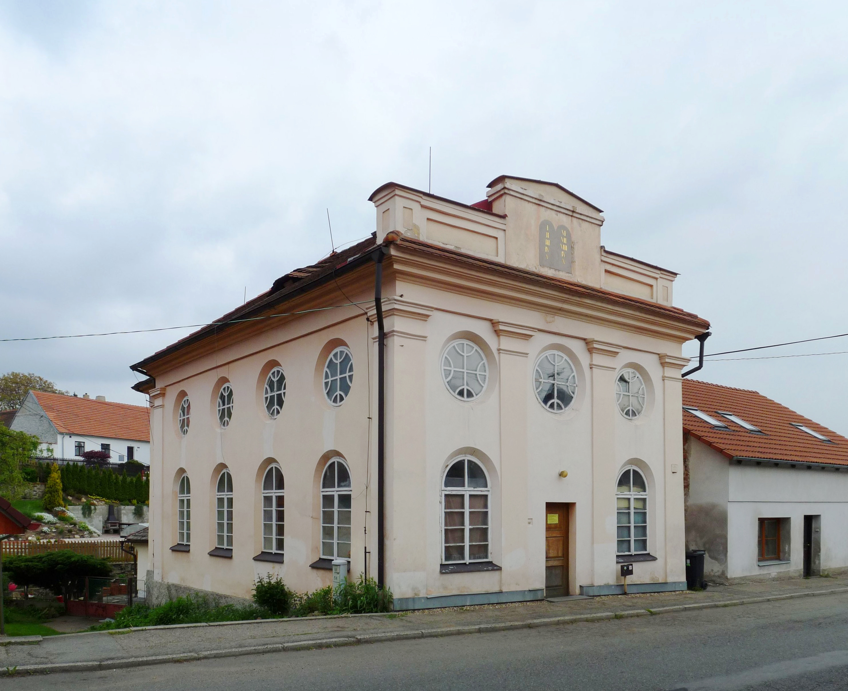 Former synagogue the town of Divišov, Benešov District, Central Bohemian Region, Czech Republic.